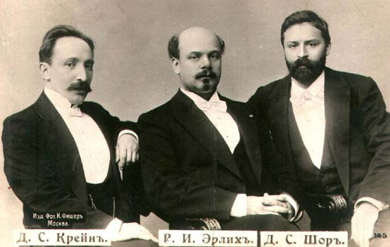 Musicians from Moscow trio: David Krein, Rudolf Ehrlich, David Schorr